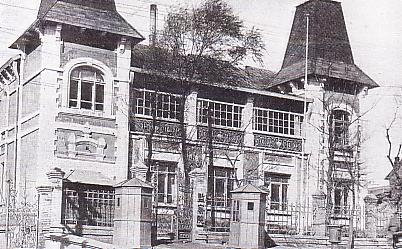 Control Council of Manchukuo（満州国監察院）